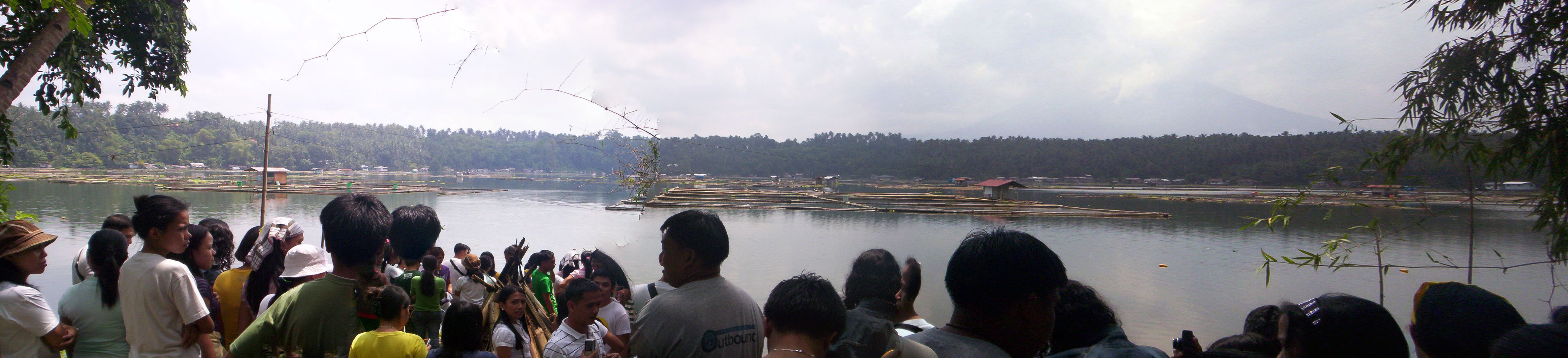 The panorama of Lake Bunot.